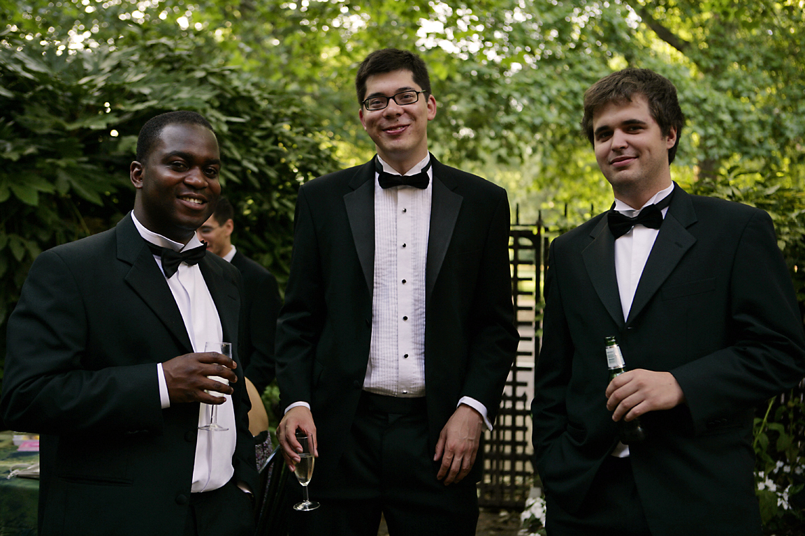 Taken by Flickr user mild_swearwords 2006-07-06 [1]. Edited by Daniel Case.